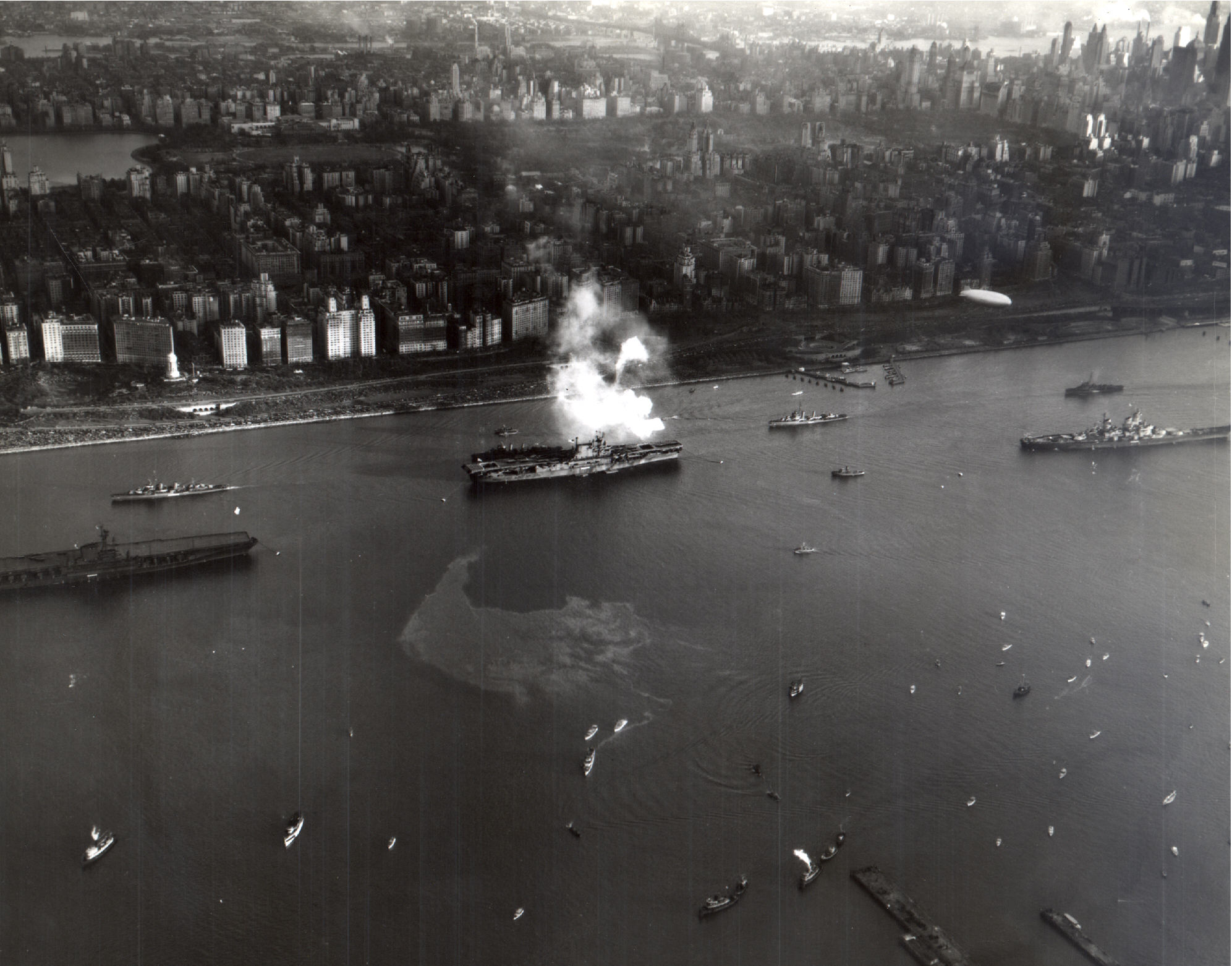 Tugboats and U.S. Navy warships pictured in the Hudson River with the New York City skyline and Central Park in the background on occasion of the Navy Day on 27 October 1945. Pictured at the extreme left of the photograph is the aircraft carrier USS Midway (CVB-41) and immediately in front of her are USS Enterprise (CV-6) and USS Missouri (BB-63). Smoke lingers over the "Big E" from the 21-gun salute she rendered to USS Renshaw (DD-499) carrying the U.S. president Harry S. Truman. Renshaw is visible abeam of Midway and is trailed by the destroyers USS Welles (DD-628) and USS Hobby (DD-610) and the destroyer escort USS Finnegan (DE-307).